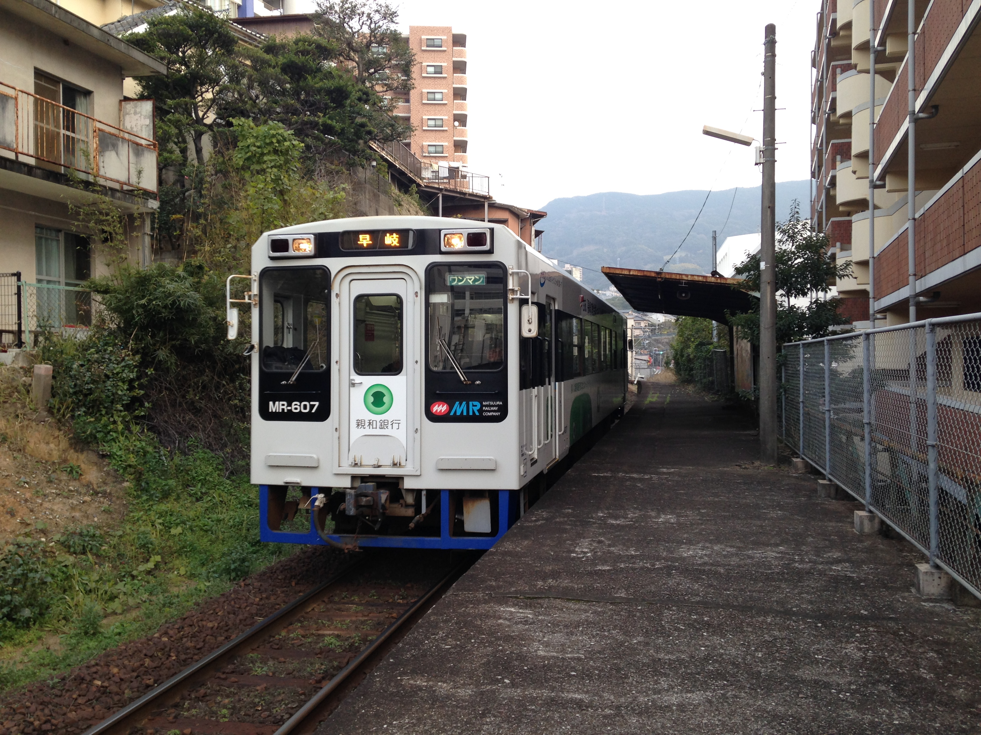 Train for Haiki arriving at Naka-Sasebo Station